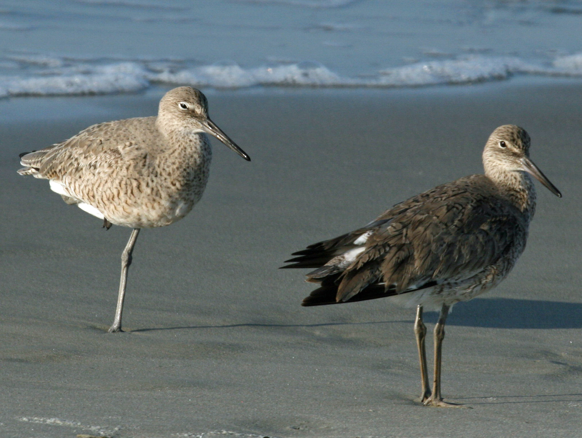 Willet (Tringa semipalmata) at Sunset Beach, North Carolina